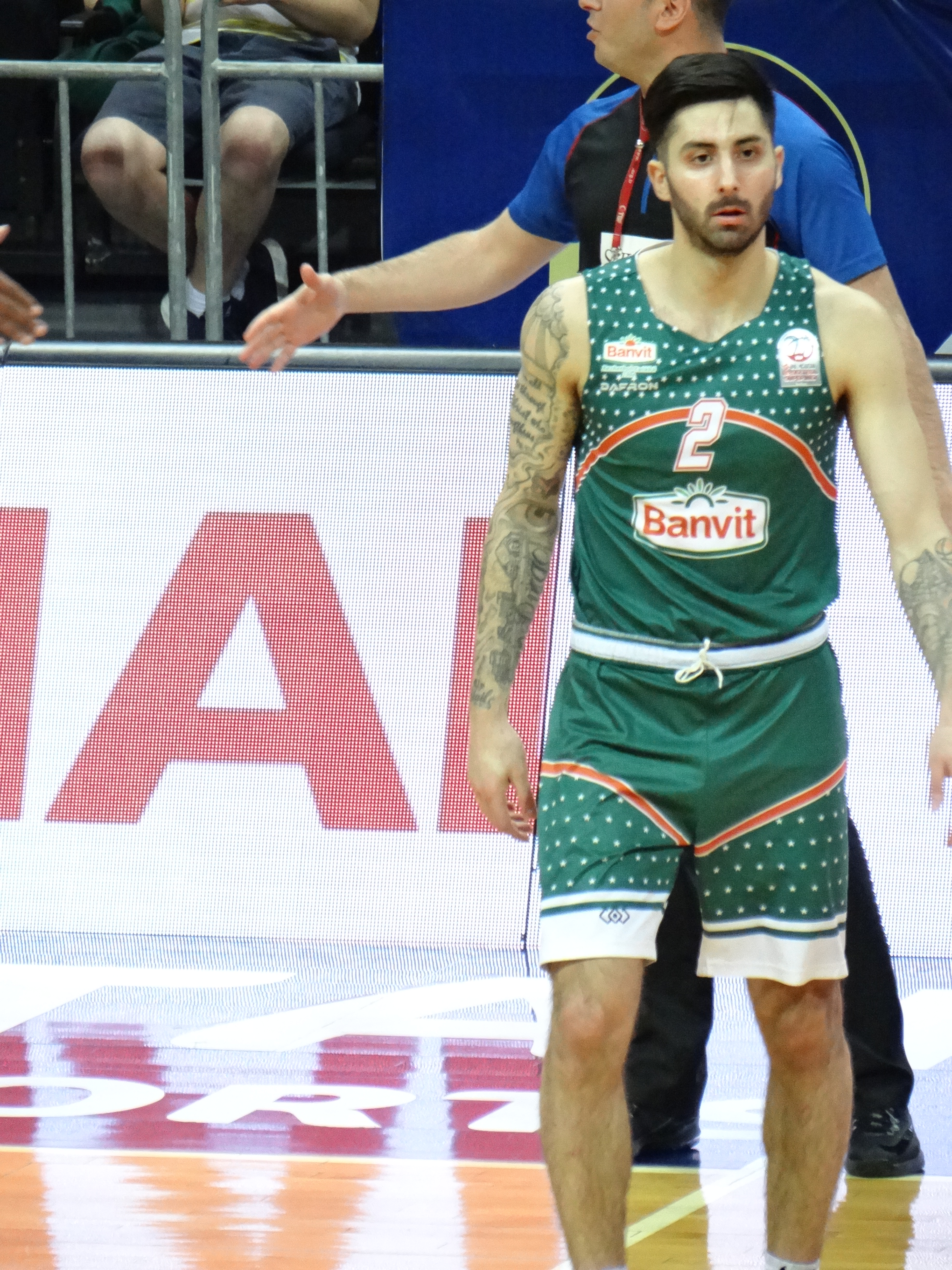 Alex Pérez (basketball) 2 Banvit B.K. TSL 20190504